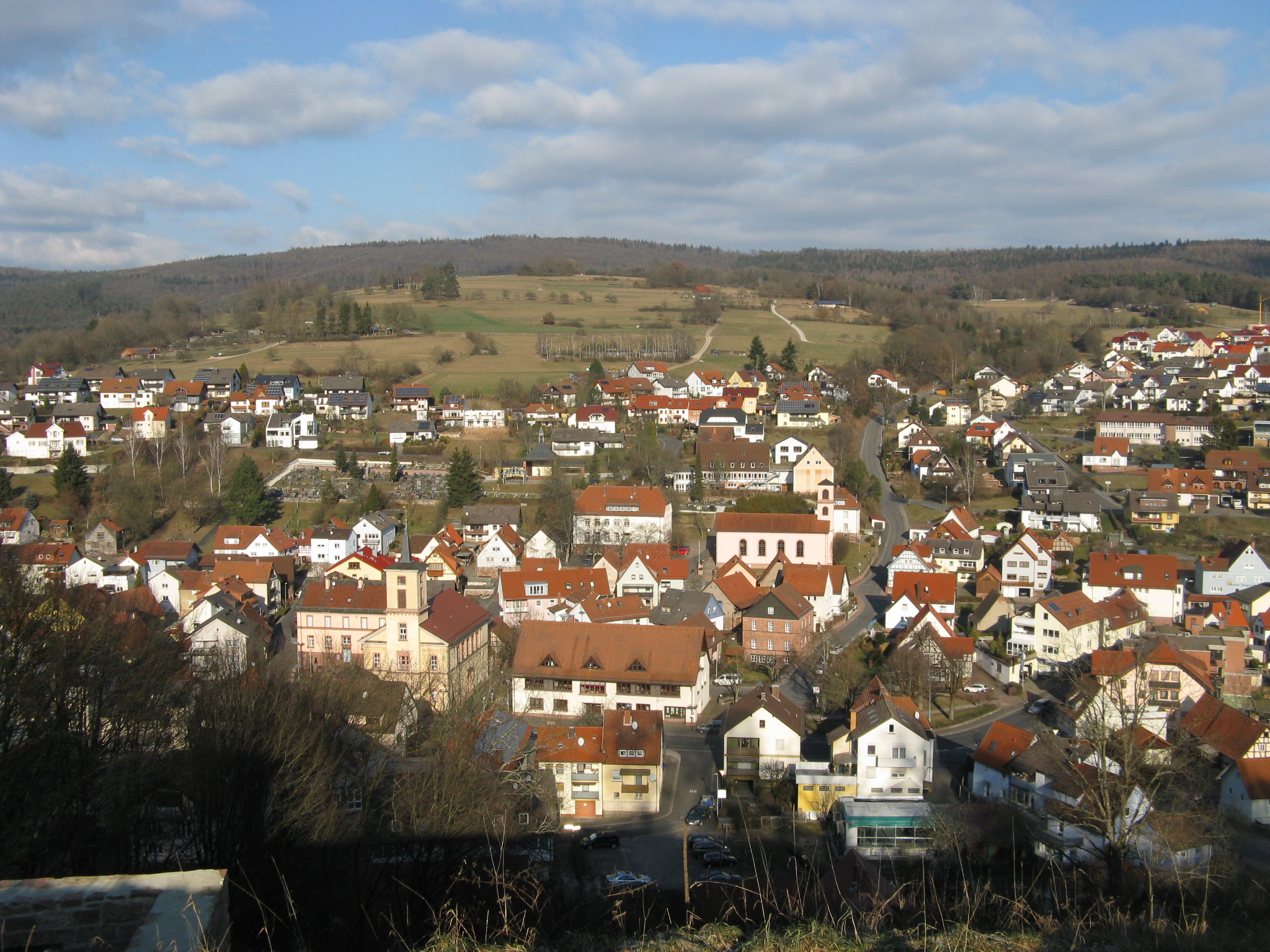 Partenstein, Spessart/Germany